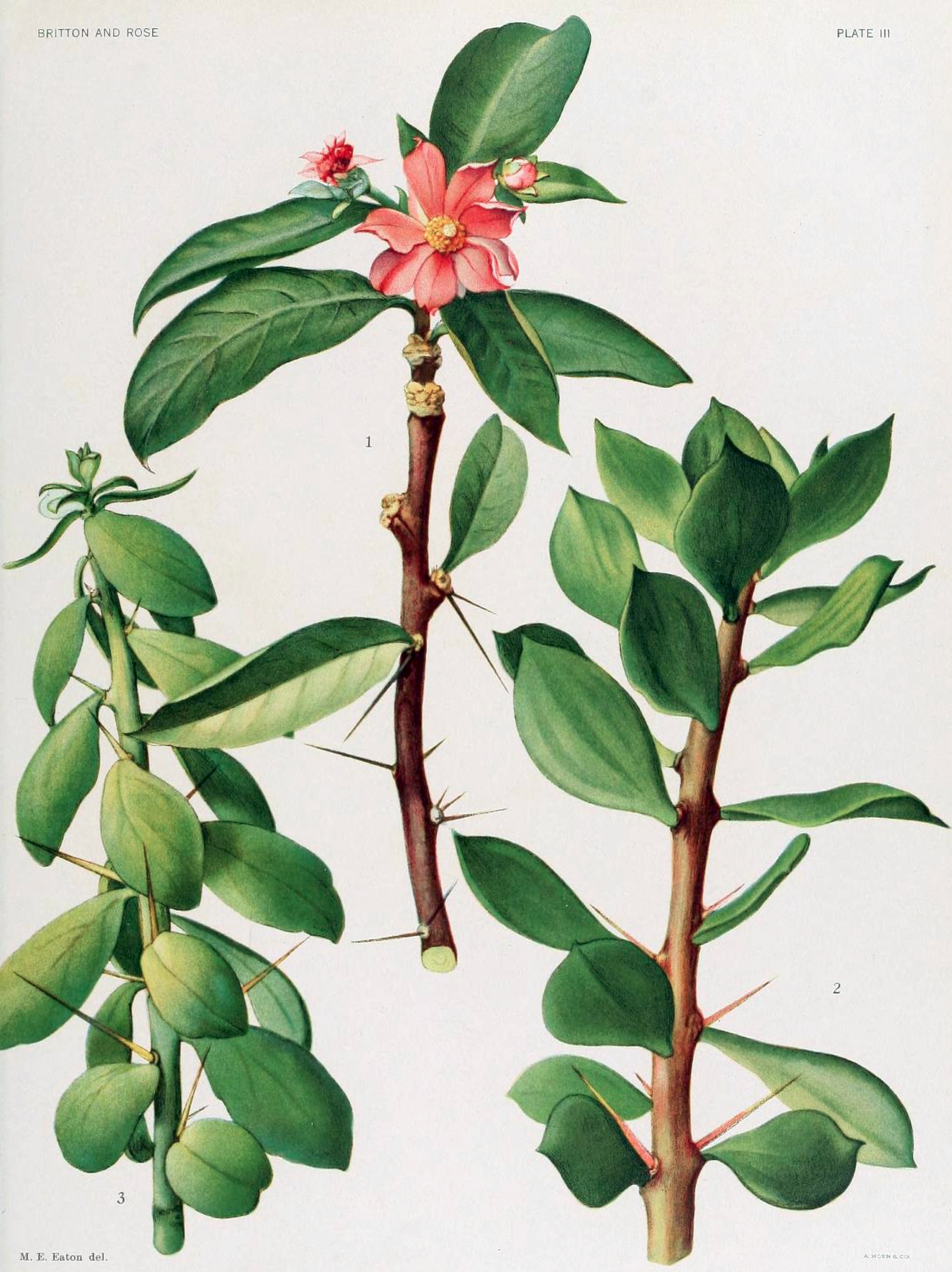 Plate III from N.L. Britton & J.N. Rose (1919) The Cactaceae, Vol. 1. Trimmed; colour adjusted so that the background is neutral (original scan shows yellowed page). (1) (the central image) is labelled "Flowering branch of Pereskia grandifolia; (2) (the right hand image) is labelled "Leafy branch of Pereskiopsis chapistle" – now Pereskiopsis rotundifolia; (3) (the left hand image) is labelled "Leafy branch of Pereskiopsis pititache" – now Pereskia lychnidiflora, synonym Pereskiopsis lychnidiflora.